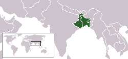 Map highlighting the native extent of Bengali (Bangla), a South Asian language. This region is known as Bengal, the western part is West Bengal, and the eastern part is Bangladesh.